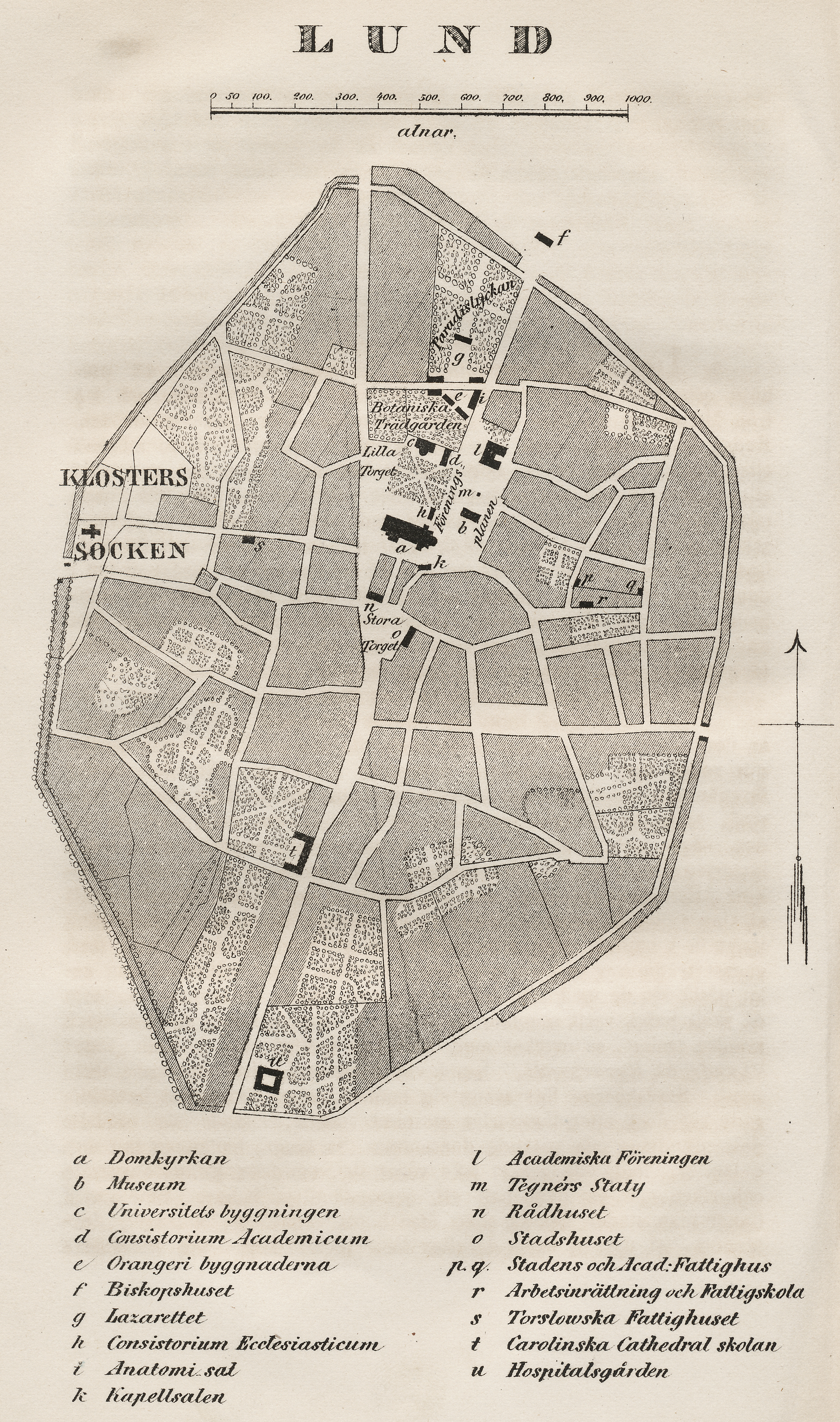 Map from about 1850 of the town of Lund in Sweden.